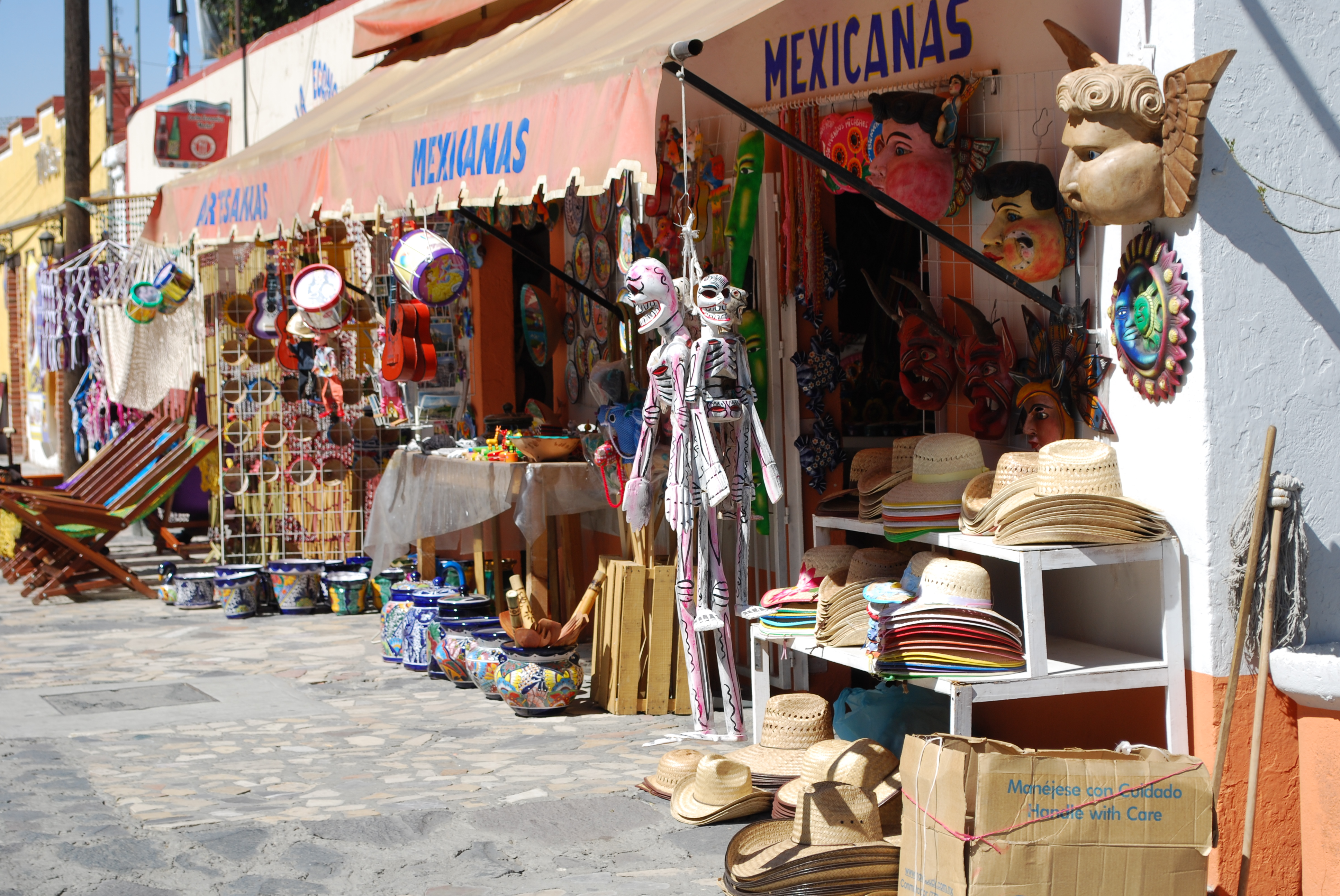 Crafts and souvenir store in Cholula, Puebla, Mexico